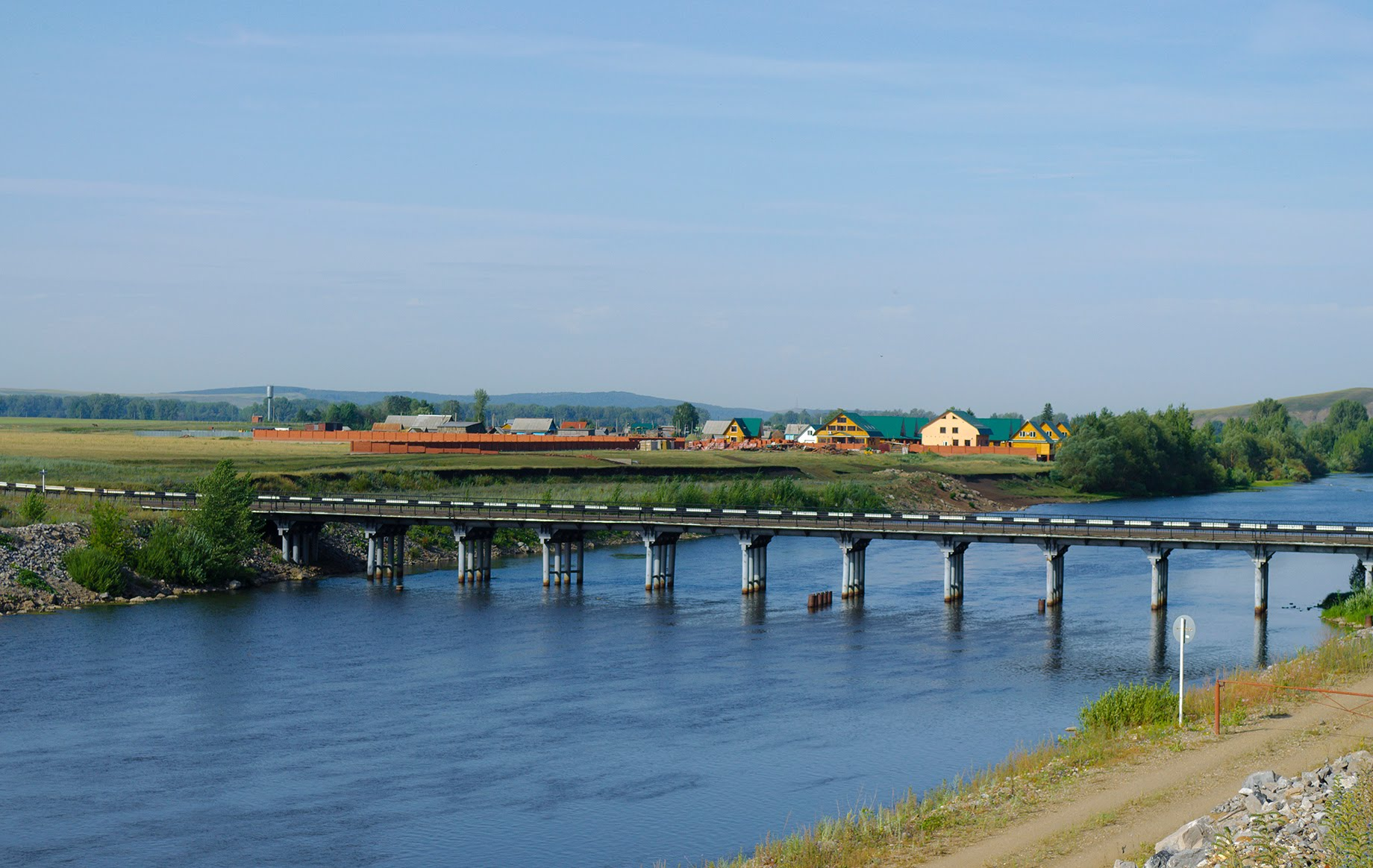 bridge across Belaya River, nearby village Verhnebikkuzino